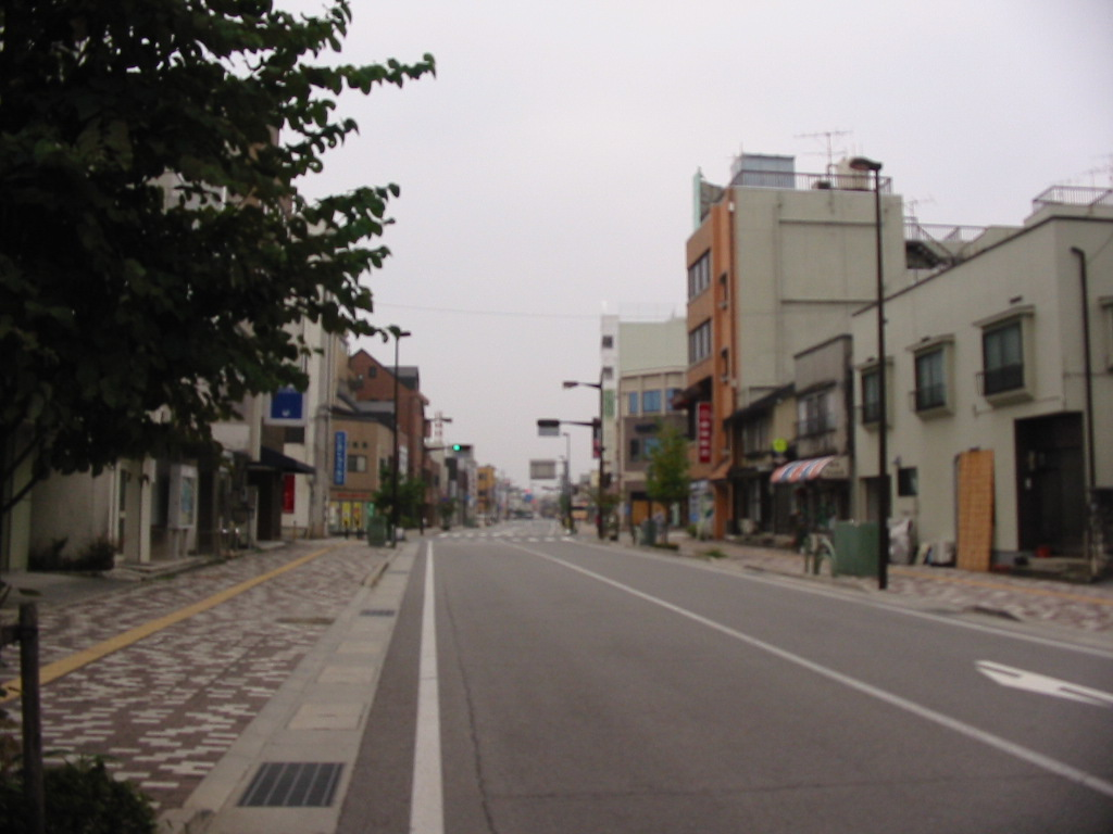 The Nagano Prefectural Road Route 8 near its starting point in Iida City